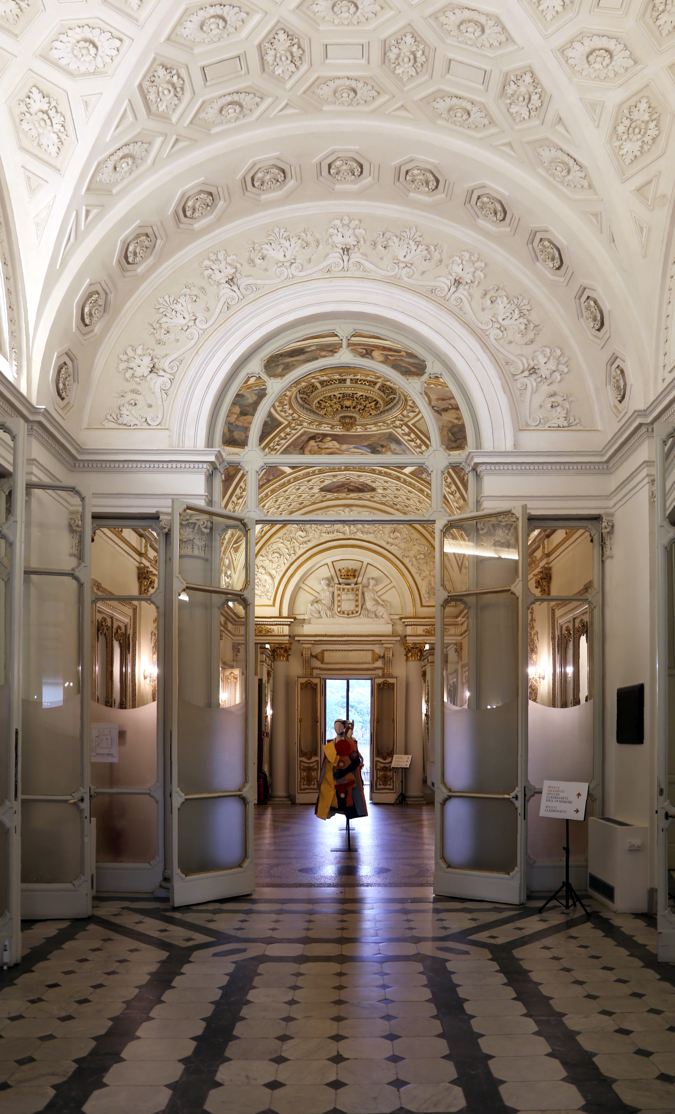 Villa Favard - Interior